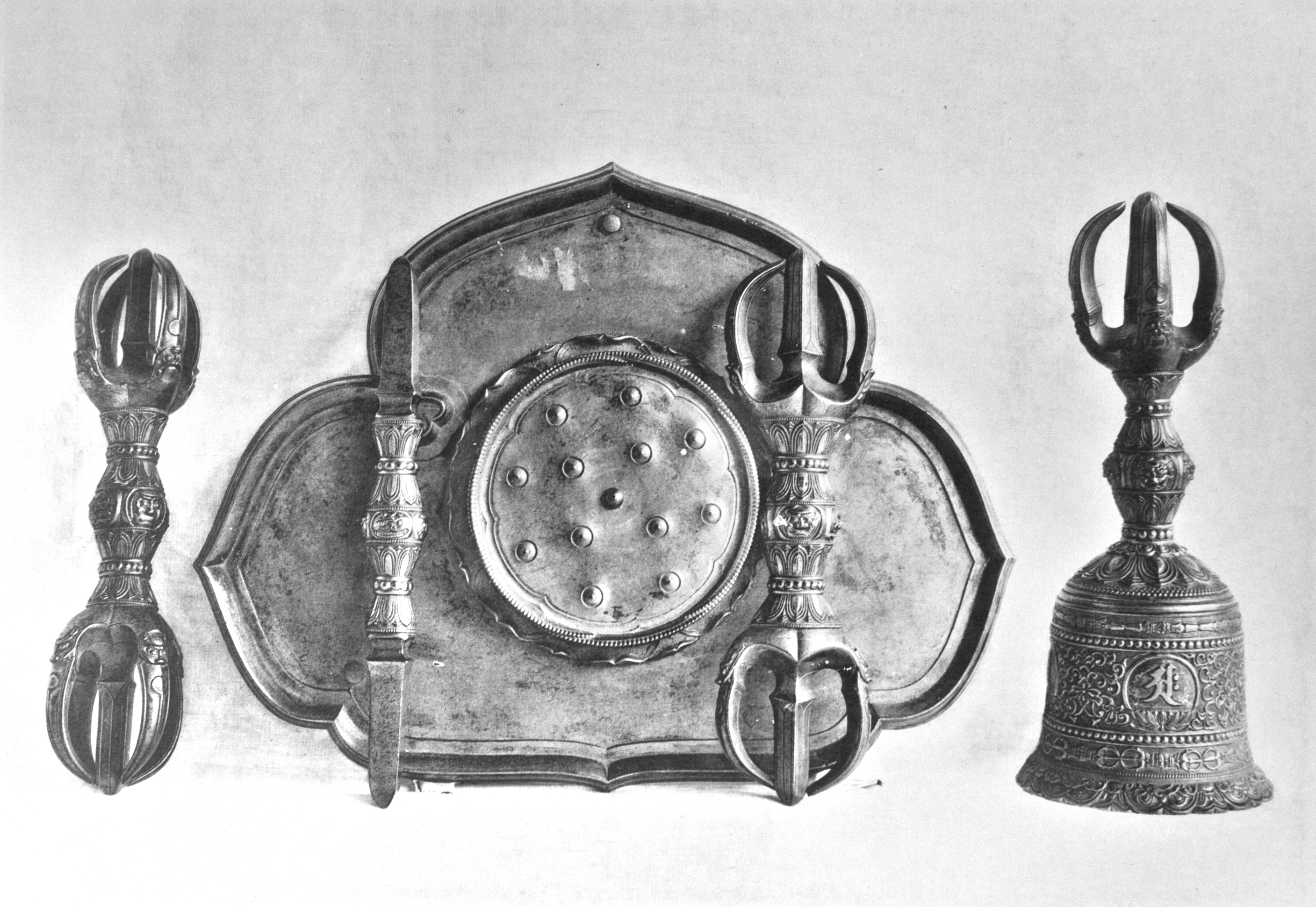 Itsukushima, Hiroshima, Japan